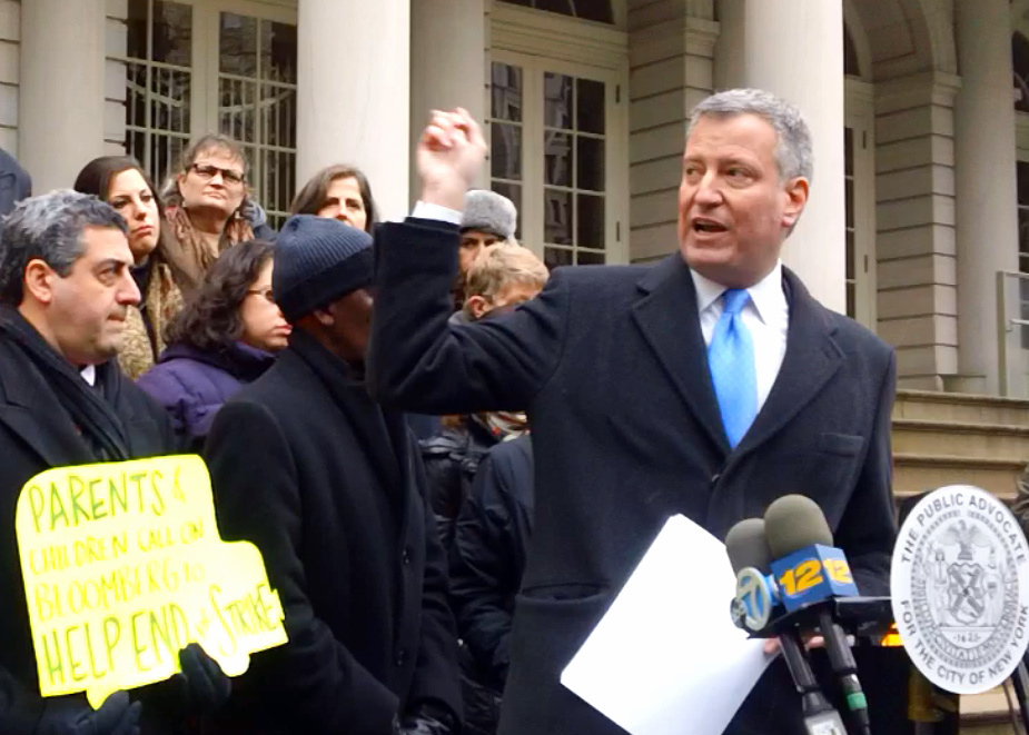 bus-presser-8